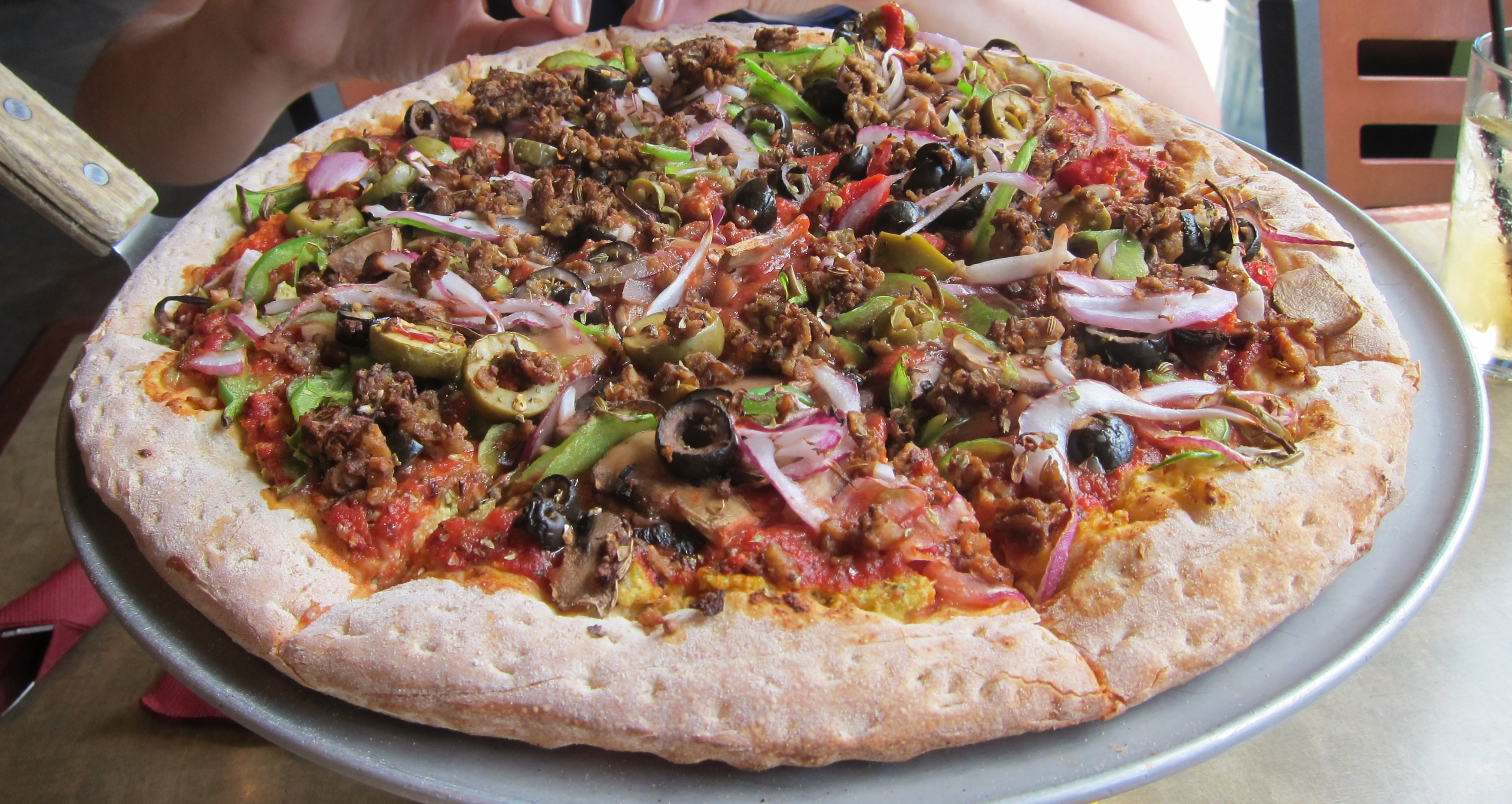 A vegan pizza served at Pizza Lucé in Minneapolis, Minnesota.